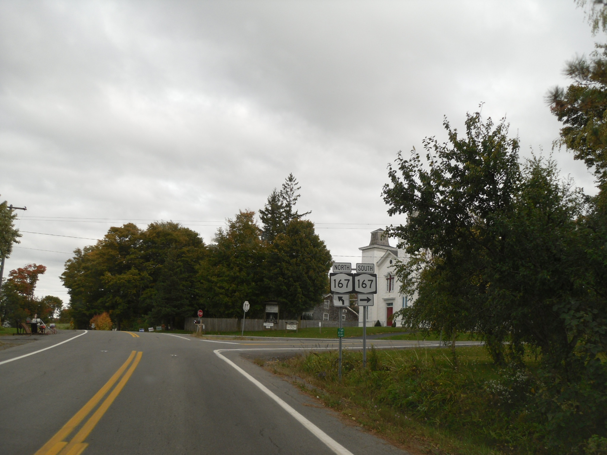 New York State Route 168 eastbound at the junction with New York State Route 167 in the hamlet of Paines Hollow, New York.